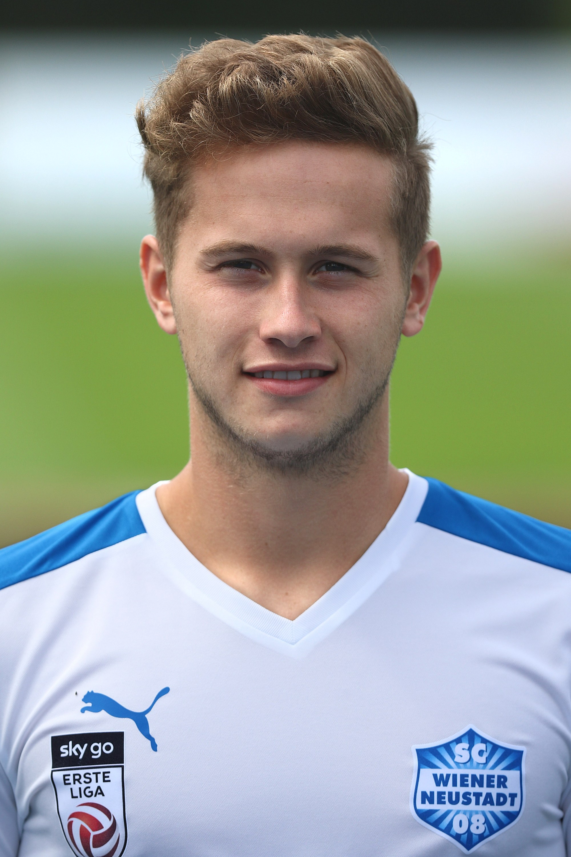 SC Wiener Neustadt squad presentation summer 2017. – The photo shows Christoph Kobald.